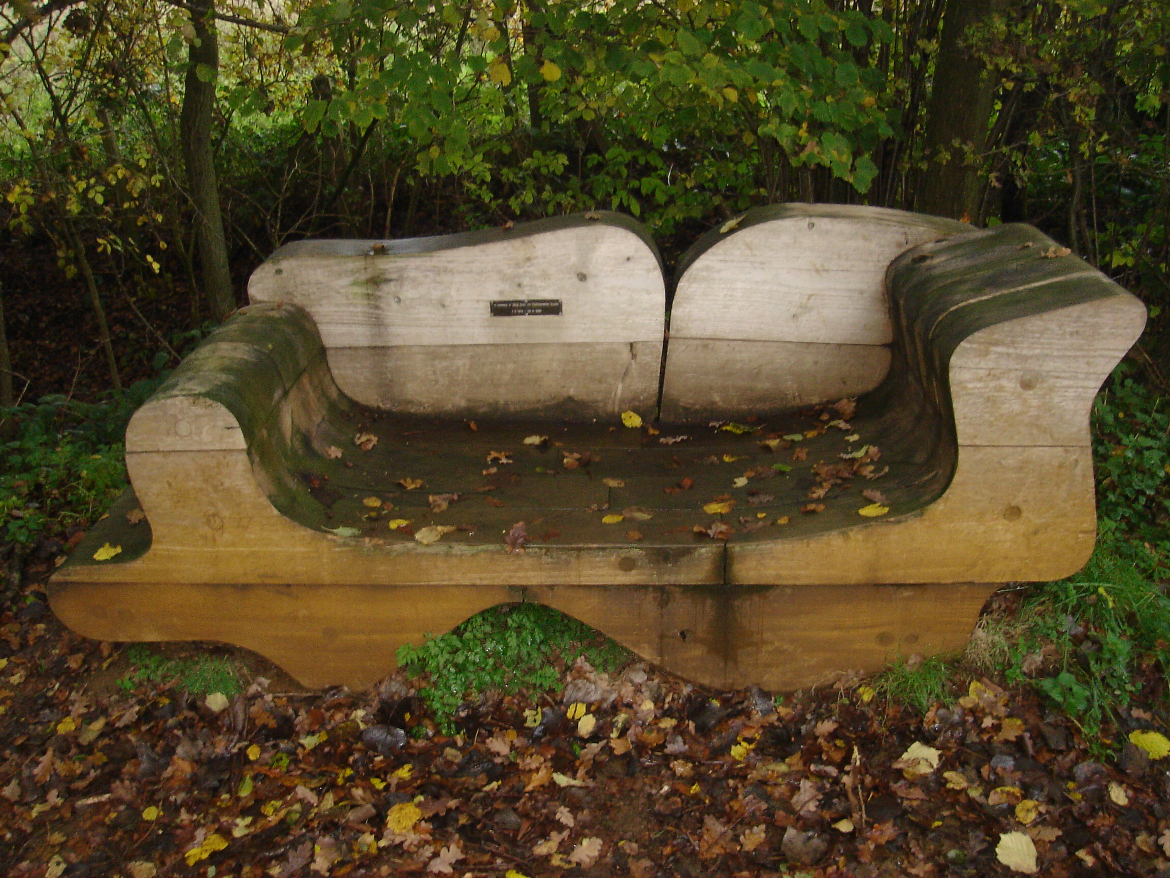 Wooden bench at Marriott's Way, Norfolk